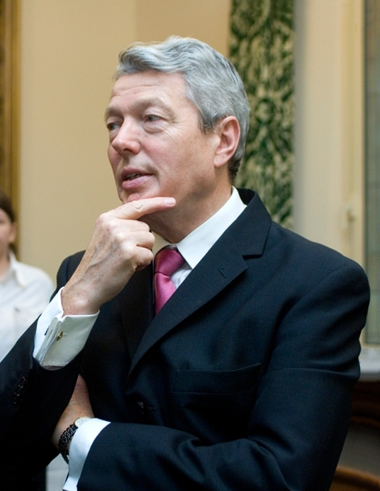 Alan Johnson, British Labour Party politician photographed in the Houses of Parliament, London, England.